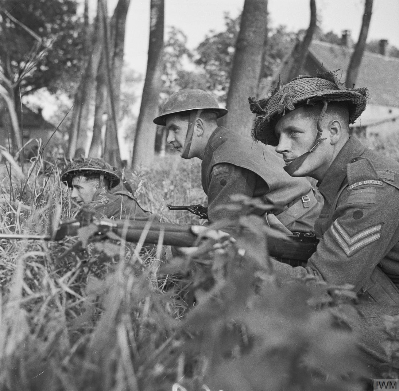 British Troops Launch An Attack on Hertogenbosch British Infantry from the 2nd Army in forward positions at Heike on the road to Hertogenbosch taking cover in a ditch. German small arms fire was very active in this sector.